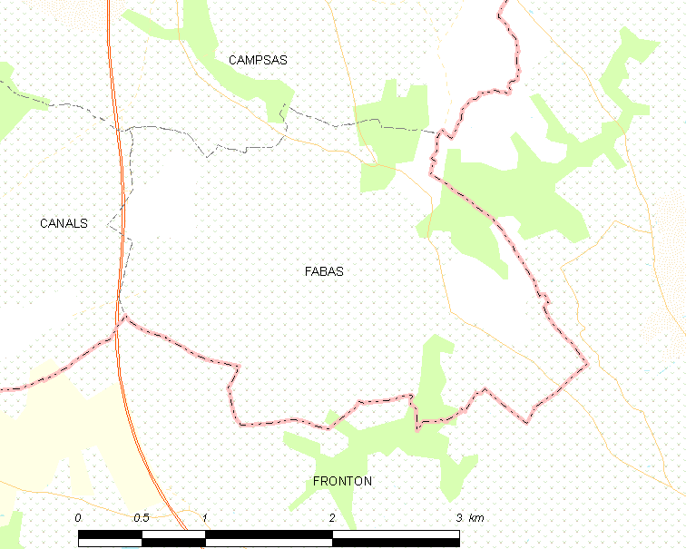 Map of French municipality Fabas